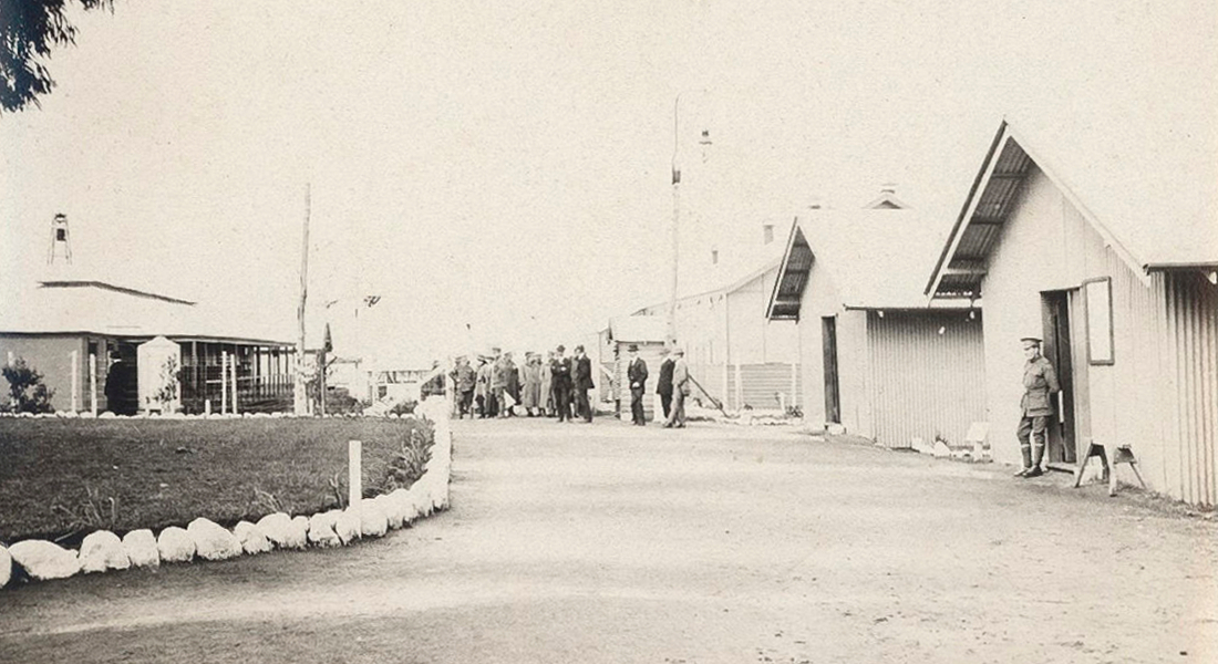 Entrance to the Langwarrin Military Camp near Frankston in Langwarrin, Victoria, Australia, in 1914.